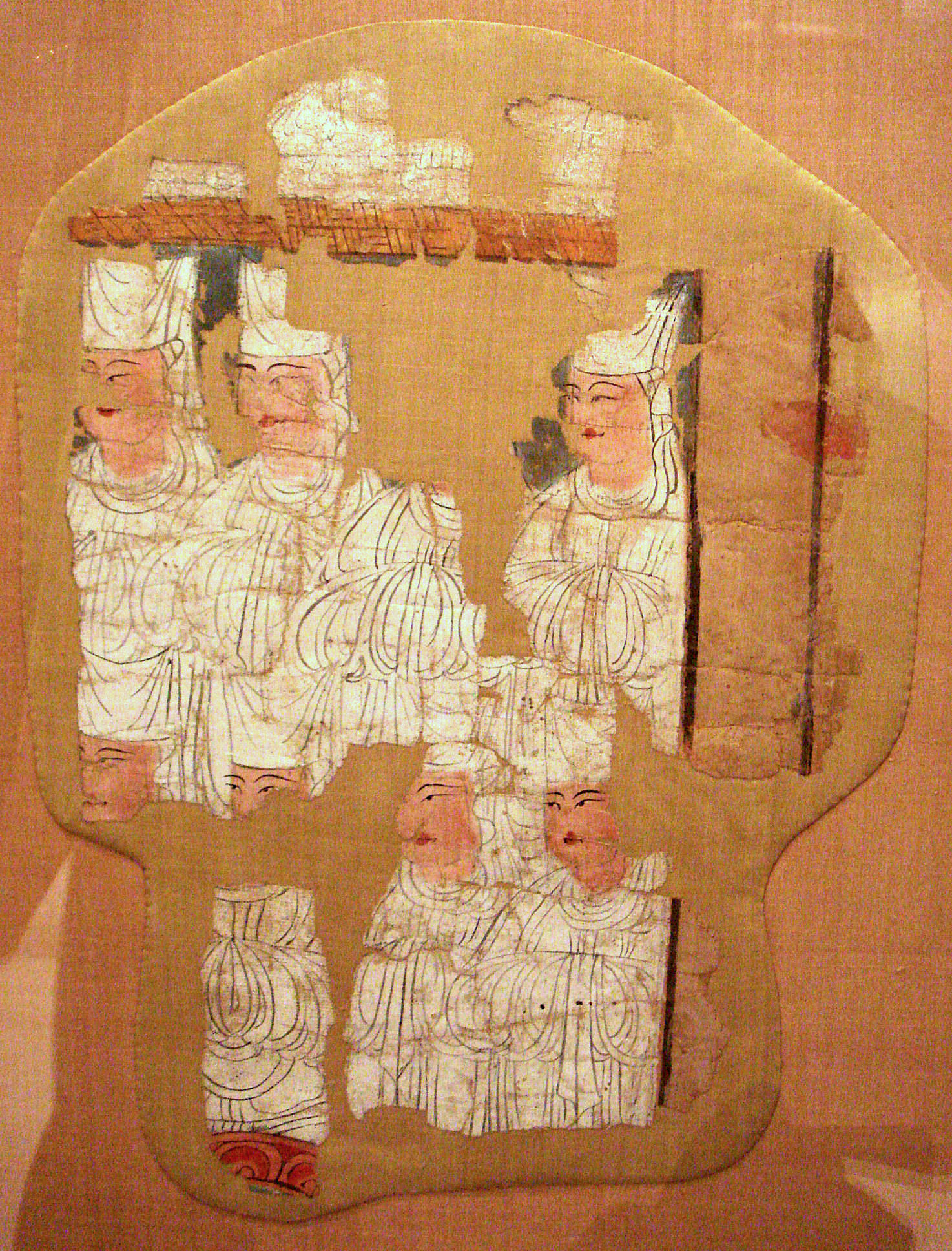 Manichaean Electae, Kocho, 10th Century